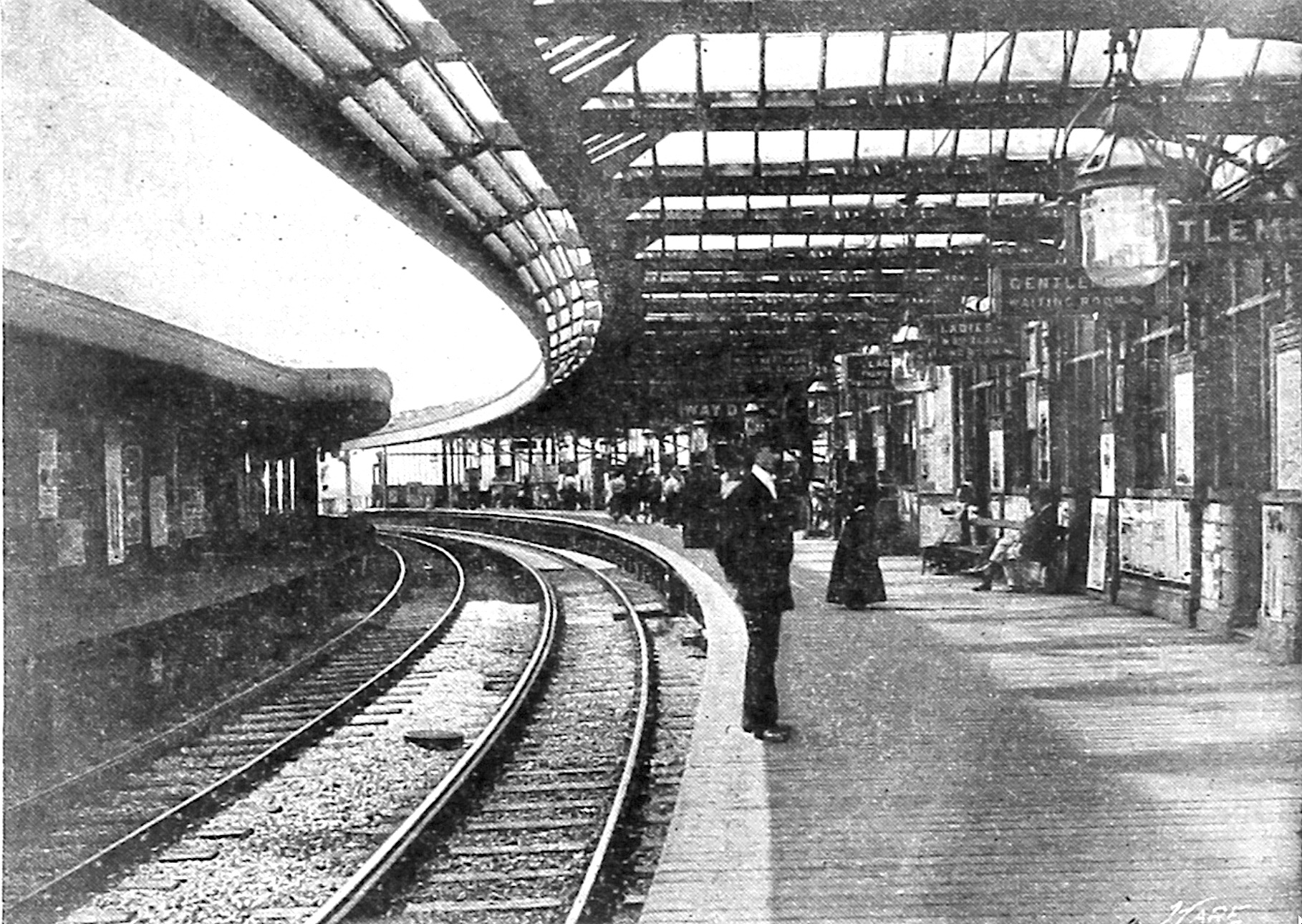 High Level station